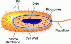 Prokaryotes are primitive cells, without a nucleus or membrane bound organelles, has DNA located in a "nuclear area", but the DNA is not bound inside the nucleus as in Eukaryotes. Prokaryotes have ribosomes, although the ribosomes are slightly more primitive than Eukaryotic cells.